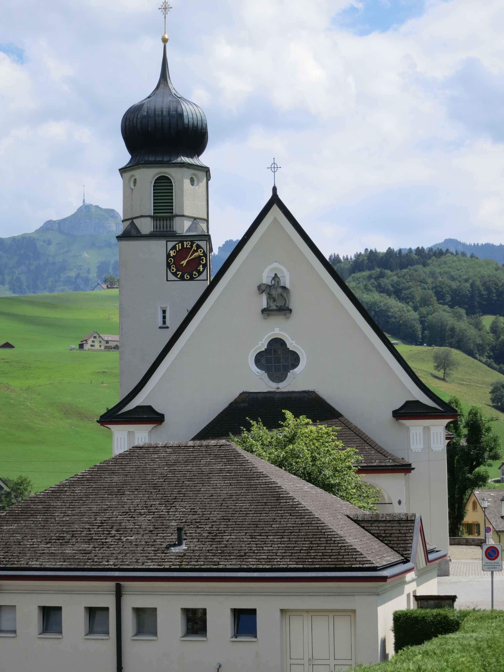 Kirche Schwende, Schwende AI, Schweiz